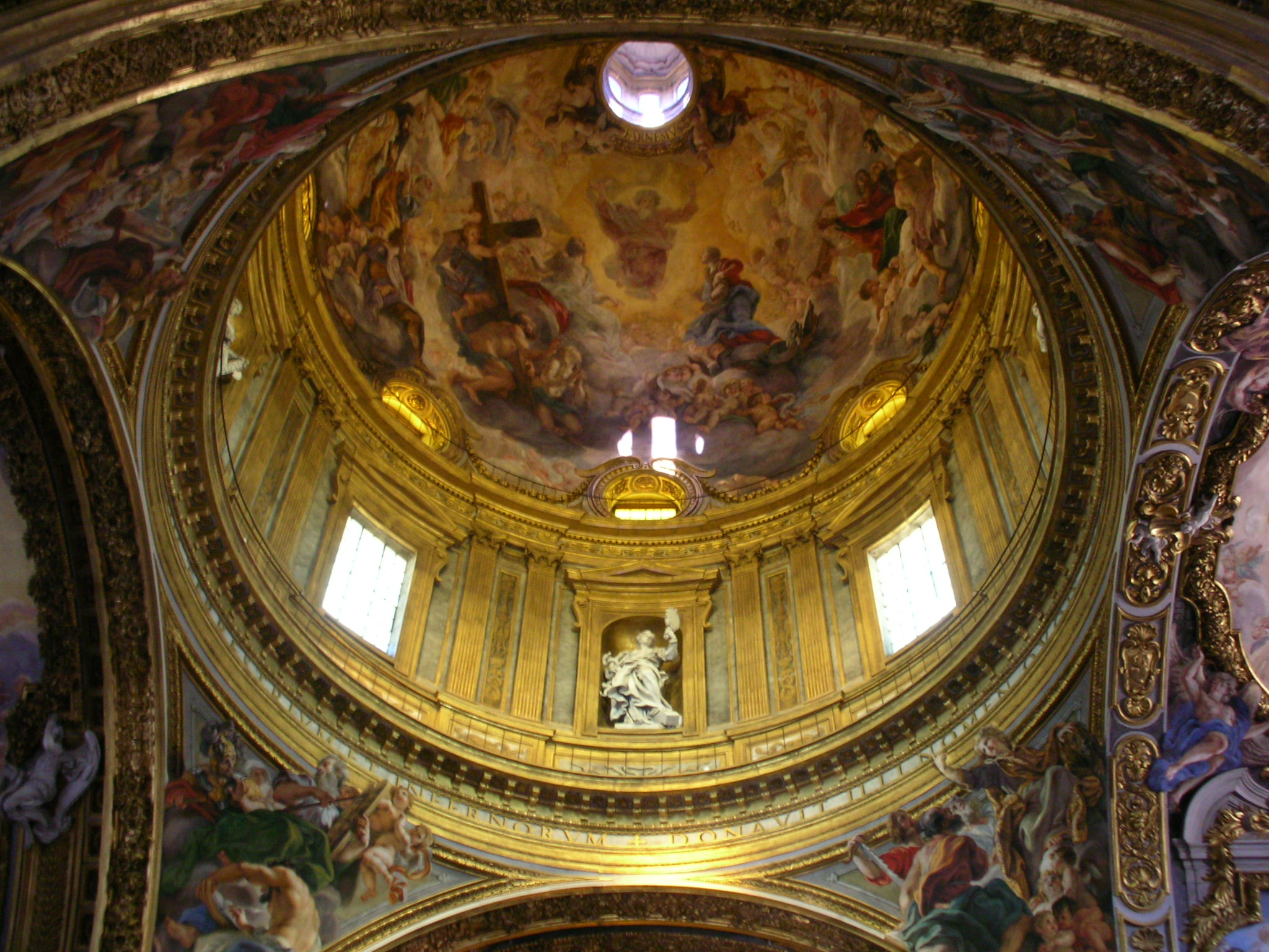 the Dome, Il Gesù, Rome